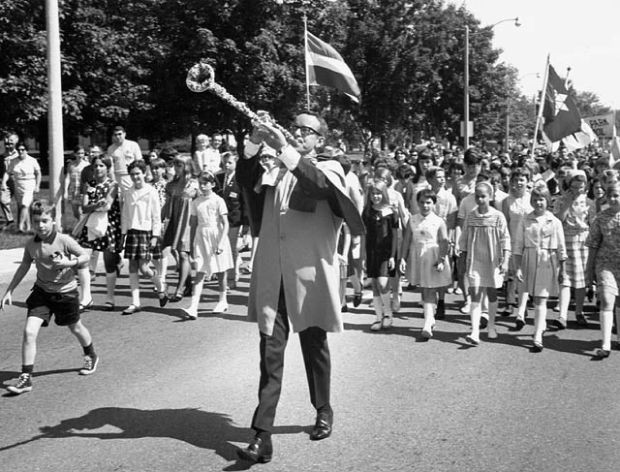 Bobby Gimby appearing as The Pied Piper during Canada's Centennial celebrations in 1967.